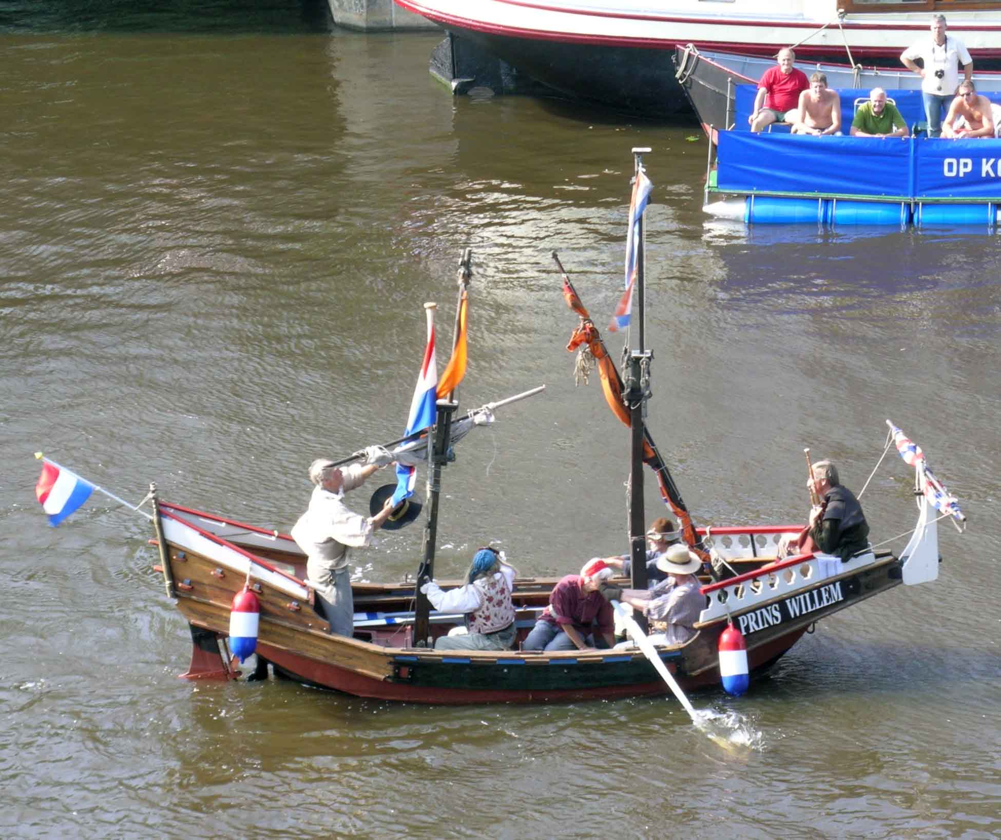 Photograph by Dirk van der Made (User:DirkvdM - for more photos see user:DirkvdM/Photographs). During SAIL Amsterdam 2005 this pieremachochel version of the replica Prins Willem could be admired. Note that it's an imitation of an imitation (a fake fake). Probably not seaworthy either ....